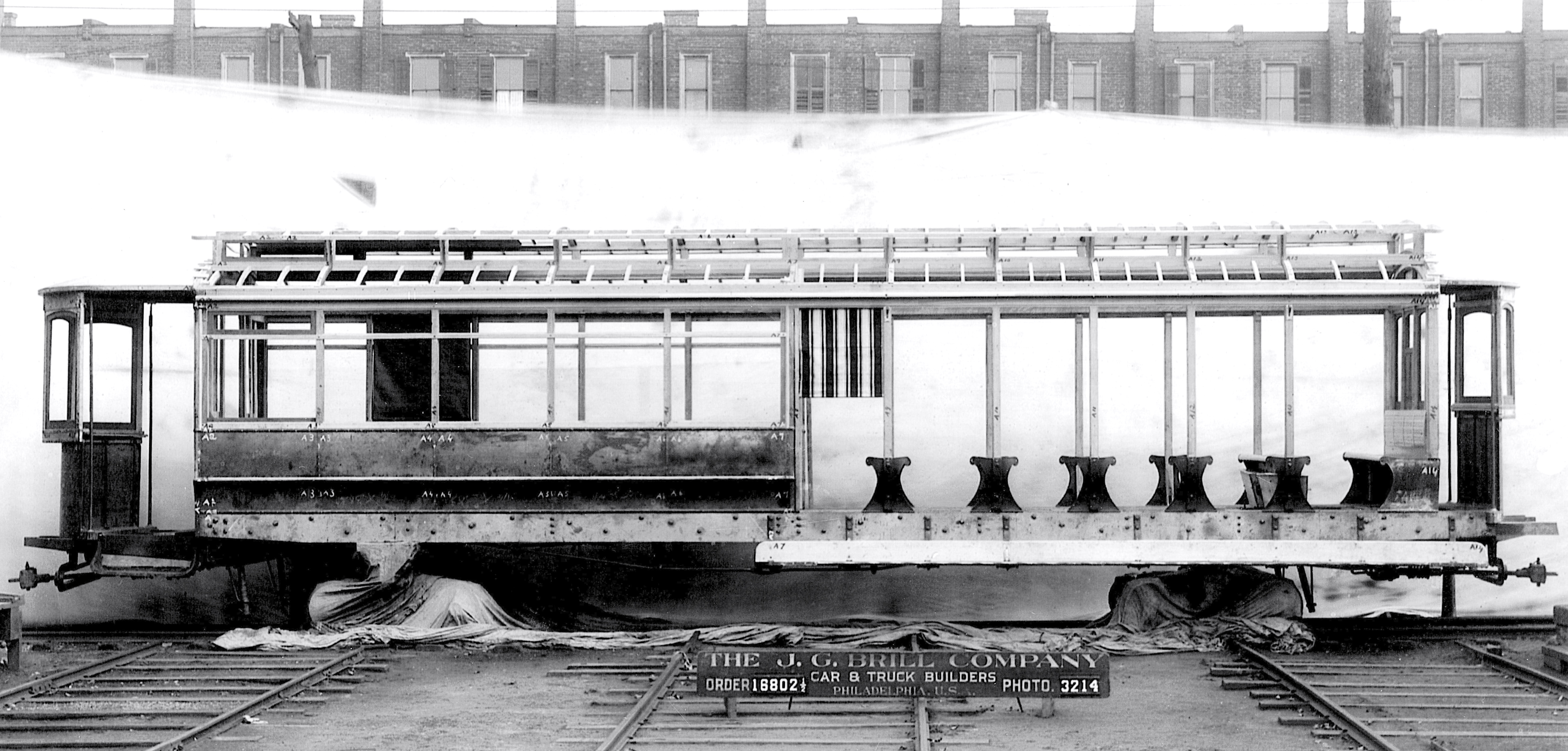 A side view of the body of a tram that became the Type E of the Municipal Tramways Trust (MTT) of Adelaide, South Australia, taken at the factory of the J.G. Brill Company, Philadelphia. It is a "works photo" taken in front of an out-of-focus pale canvas backdrop to give clarity to the tram body's details. In front is a sign showing "The J.G. Brill Company Car and truck builders Philadelphia USA Order 16802½ Photo 3214". Every component appears to be identified by a letter and number, perhaps related to the fact that all trams in the order were supplied to the MTT in knocked-down kit form for assembly in Adelaide. The photo shows such features as the metal truss rods that strengthened the wooden frame, the link-and-pin couplers, the roller blinds in the saloon and open compartments, and the delicate structure of the clerestory roof.